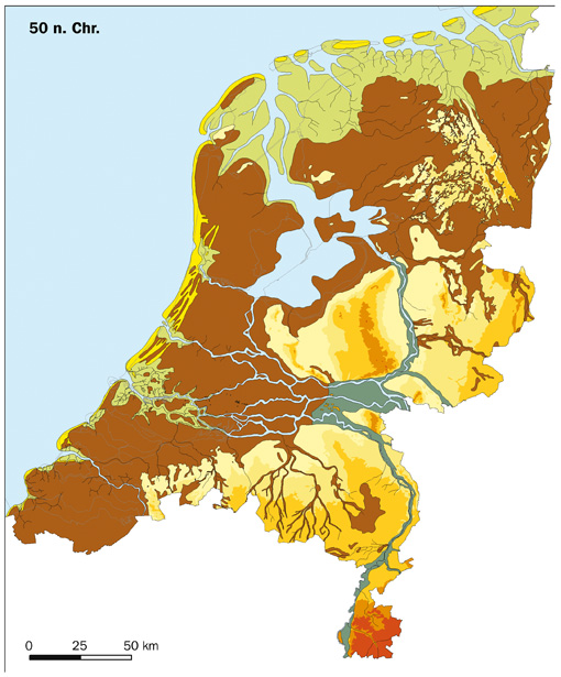 Palaeography of the Netherlands 50 AD